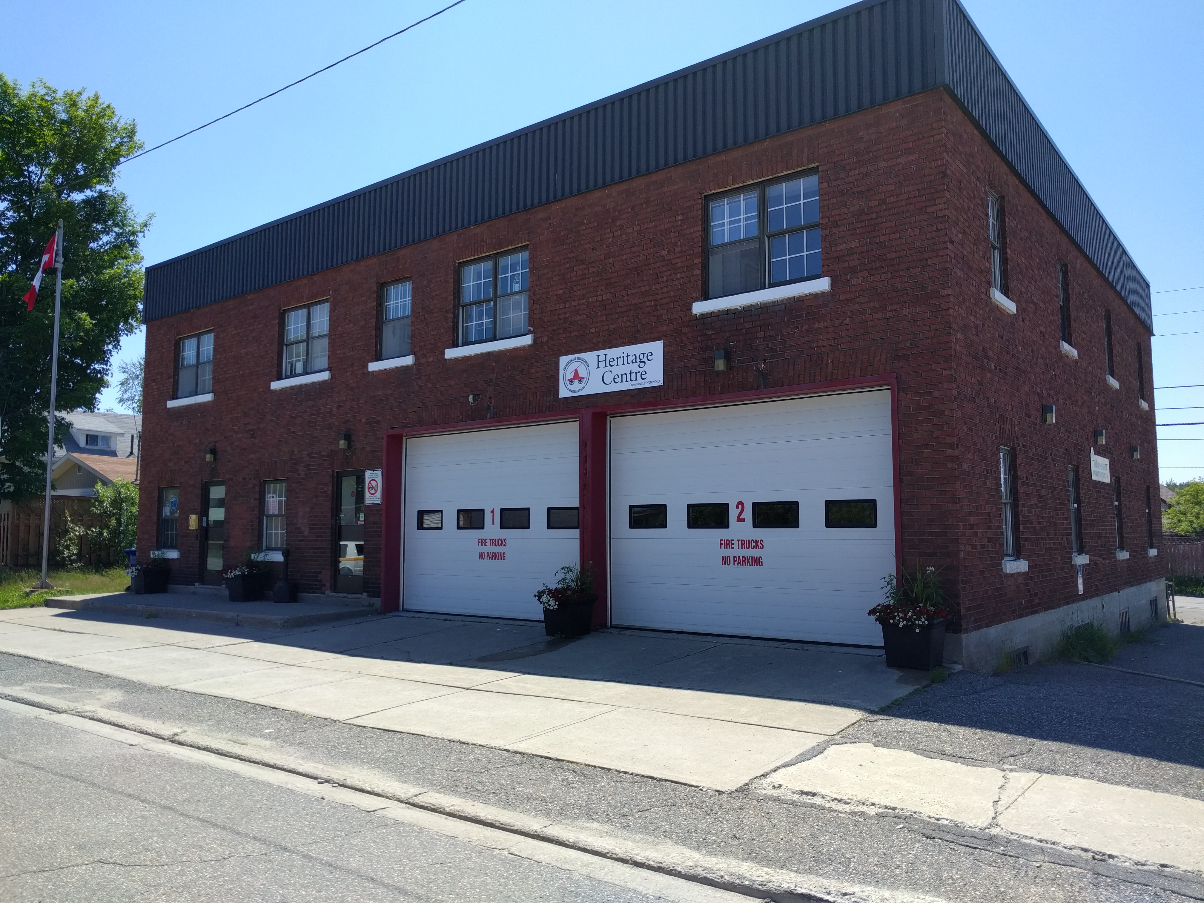 NORMHC Heritage Centre, Formally the Capreol Fire Department. Also the location of the NORMHC Model Railway display